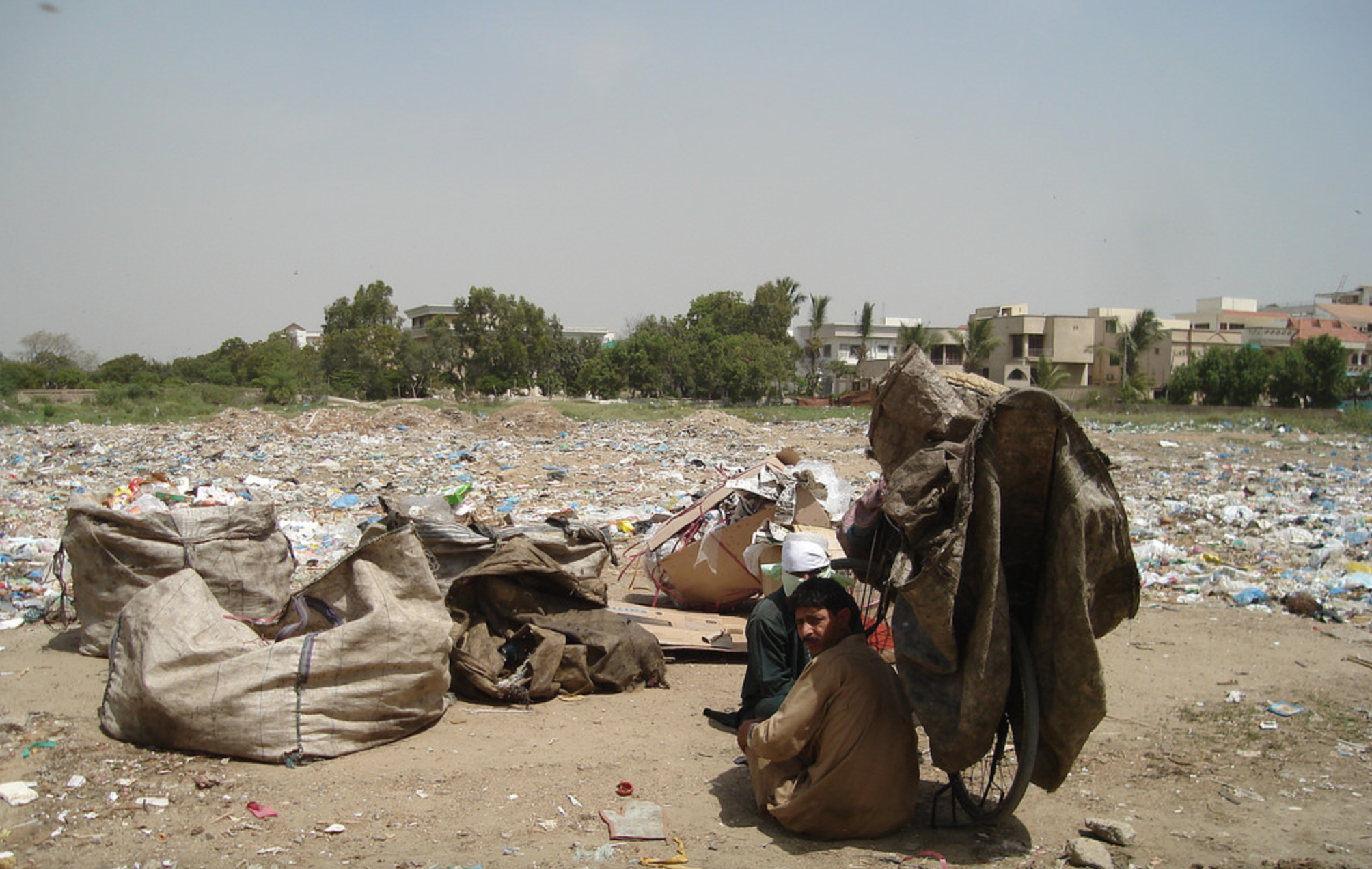 Trash in an empty plot in Block 2 Clifton, Karachi, Pakista